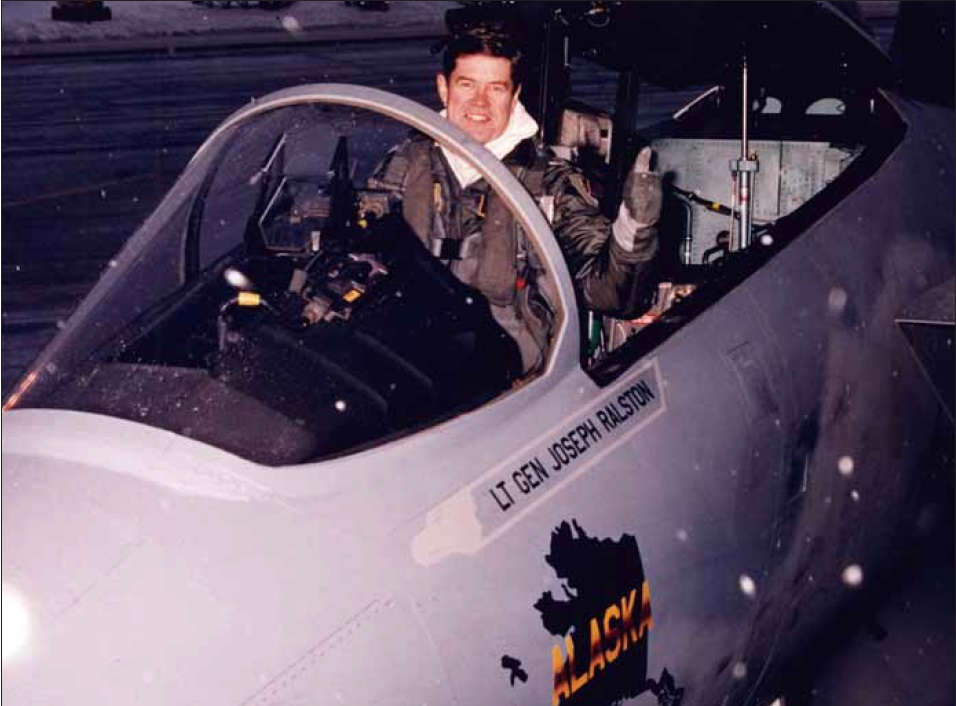 Lieutenant General Joseph Ralston Flying an F-15 Eagle during his tenure as Commander of Alaskan Command.